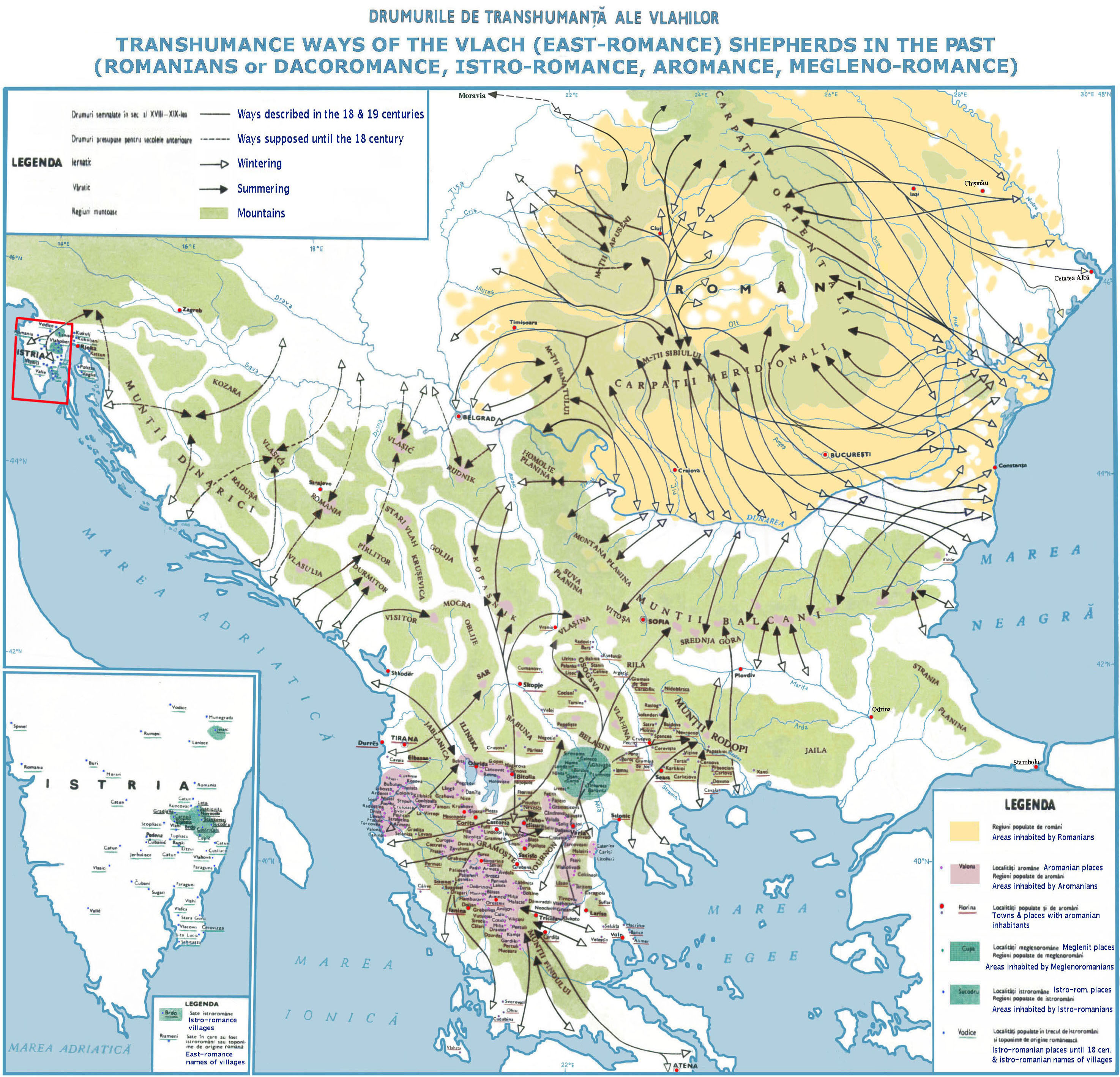 Sources are indicated on the talk file. Last cartographer are agree to be modified & used, see my romanian discussion page april 2, 2016 21:51 (EEST).